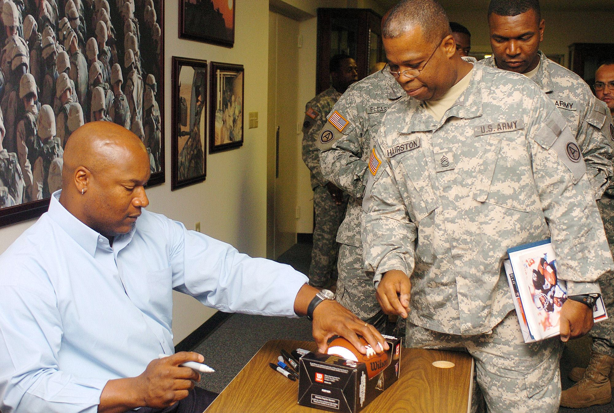 Football and baseball great Bo Jackson paid a visit to Third Army Headquarters, Sept. 12, at Fort McPherson, Ga., to sign autographs, shake hands and take pictures with Soldiers assigned to "Patton's Own."